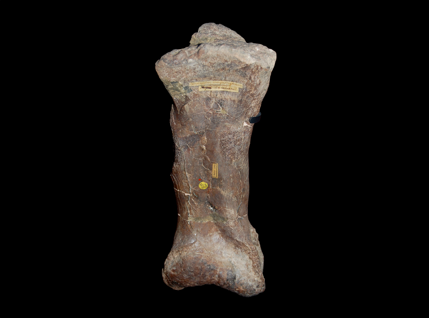 Hypselospinus bone NHM